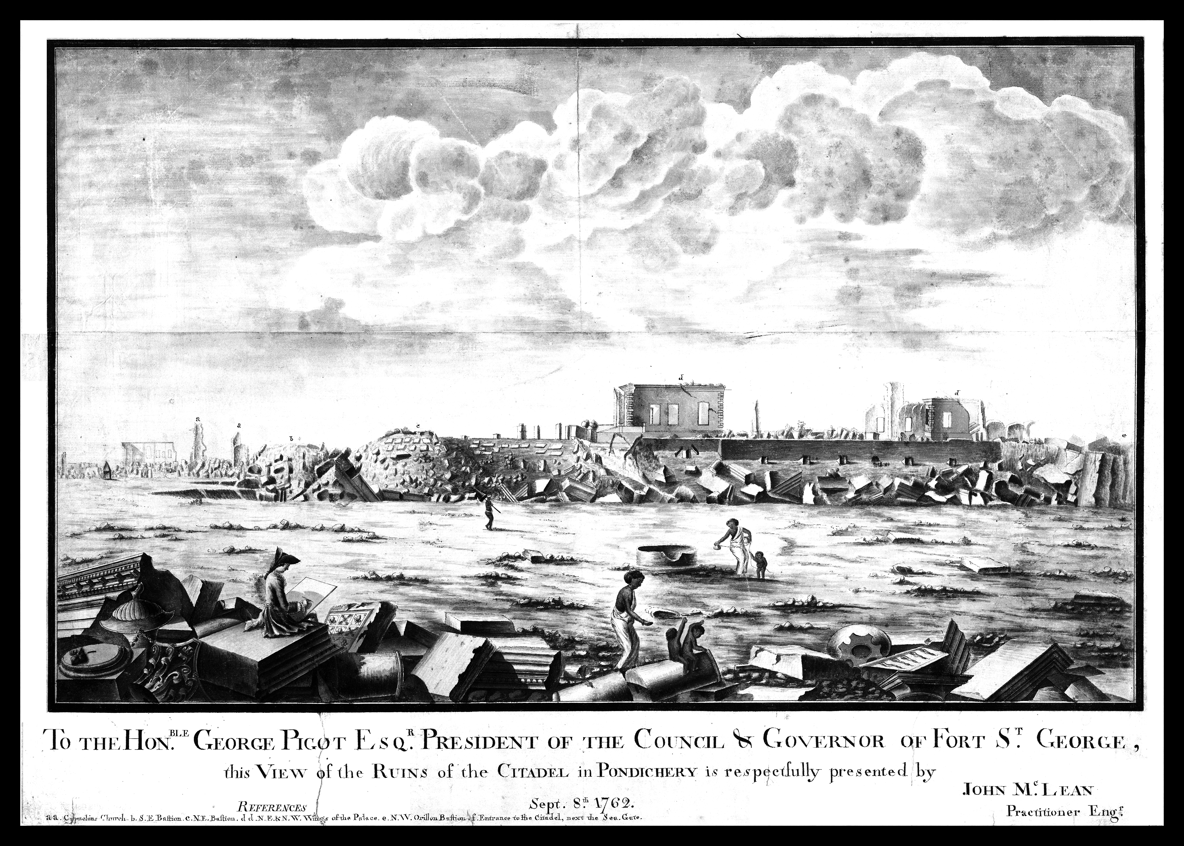 Ruins of the citadel in Pondicherry after the attack by the British; McClean shows himself sketching in the foreground. 8 September 1762